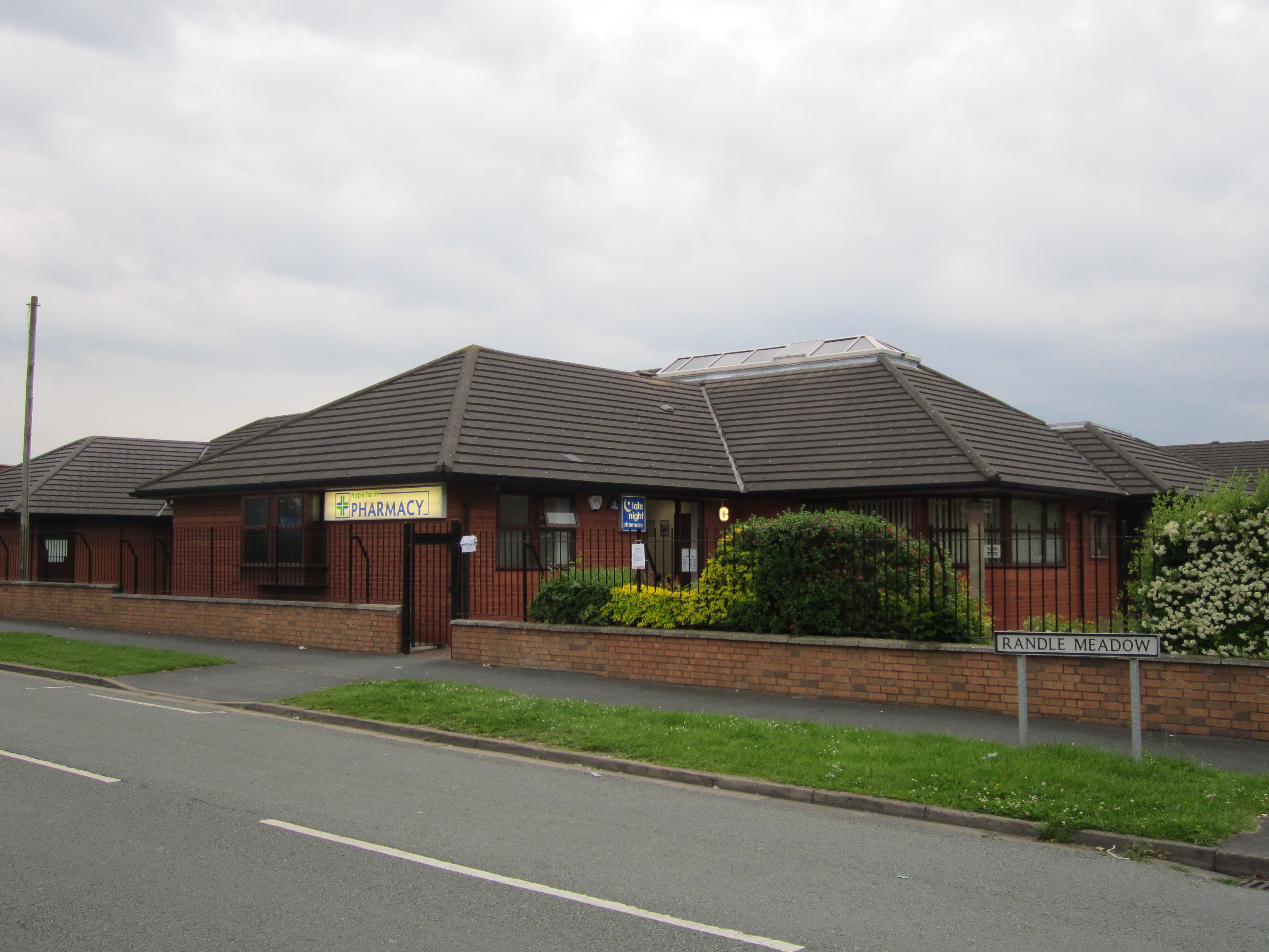 Hope Farm Pharmacy, Hope Farm Road, Great Sutton, Ellesmere Port, Cheshire, England.